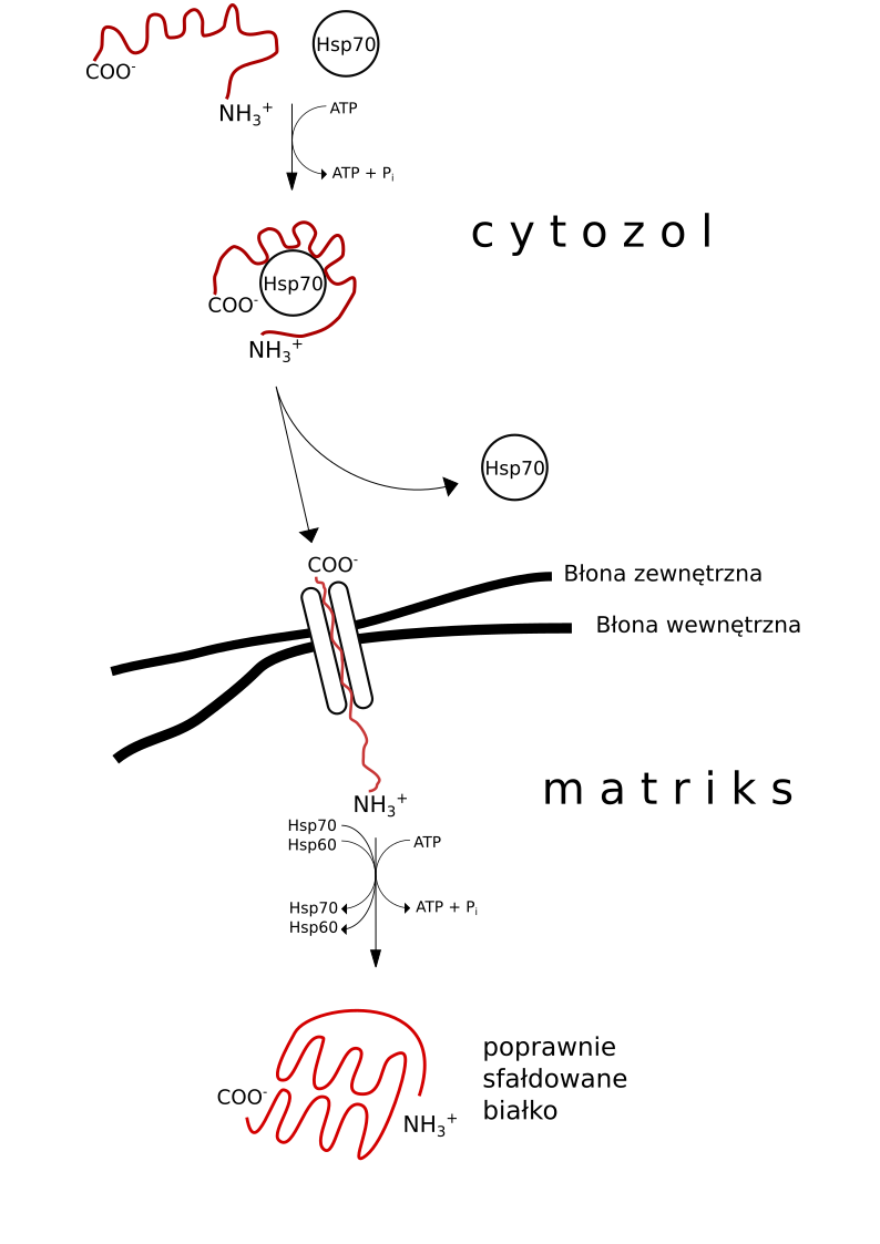 Diagram - transporting nuceus coded proteins through mitochondrial and chloroplastidal membranes with chapeirons-assisted protein folding and unfolding